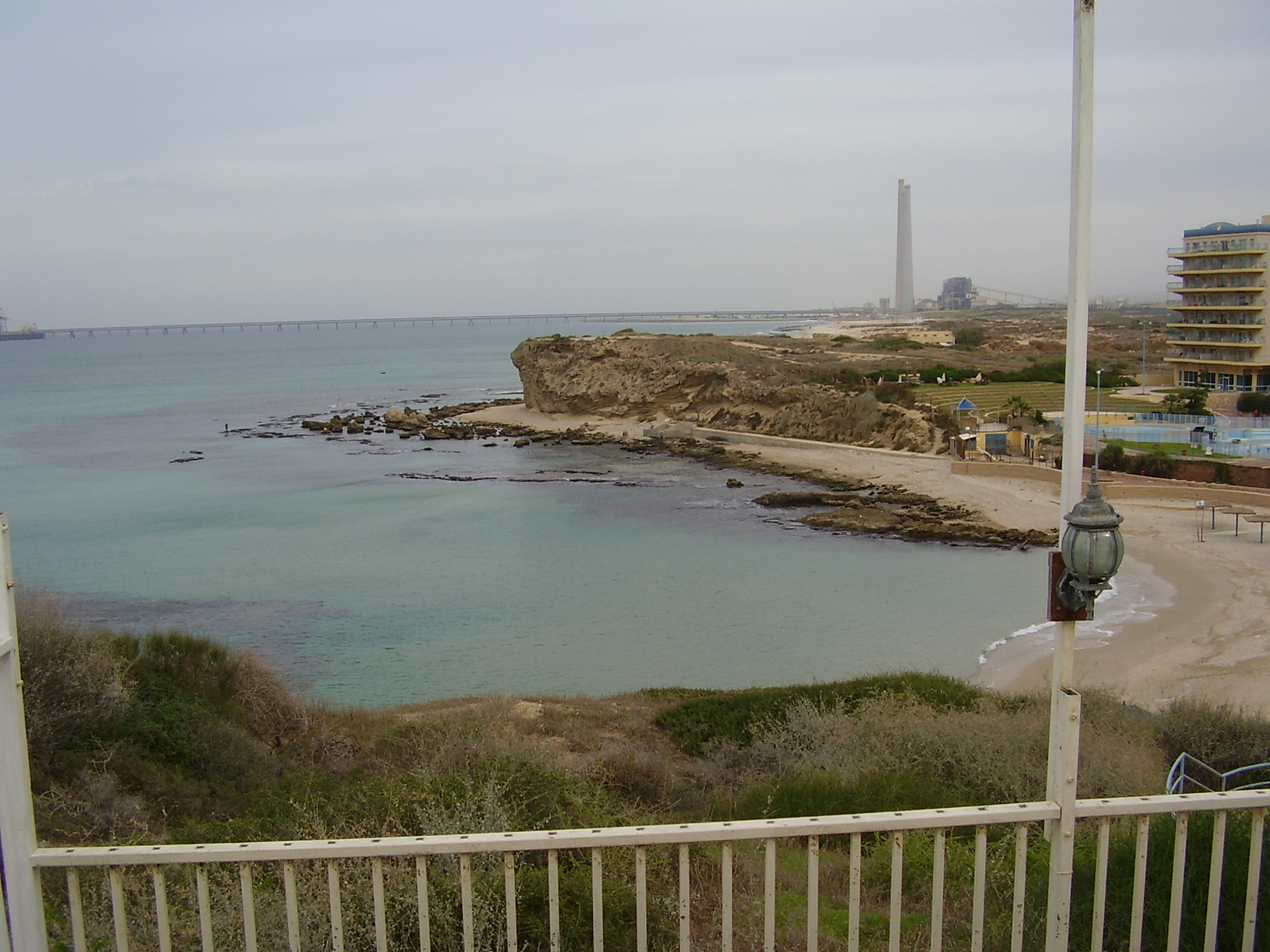 giv\'at olga beach